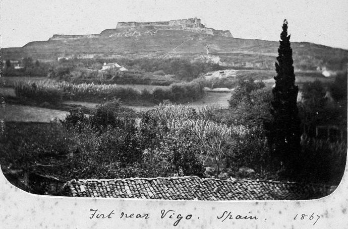 Fort near Vigo. Spain. 1867